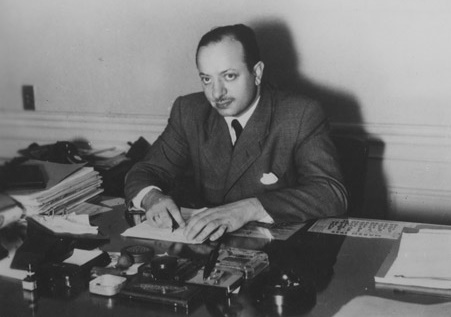 Atilio Mentasti- productor